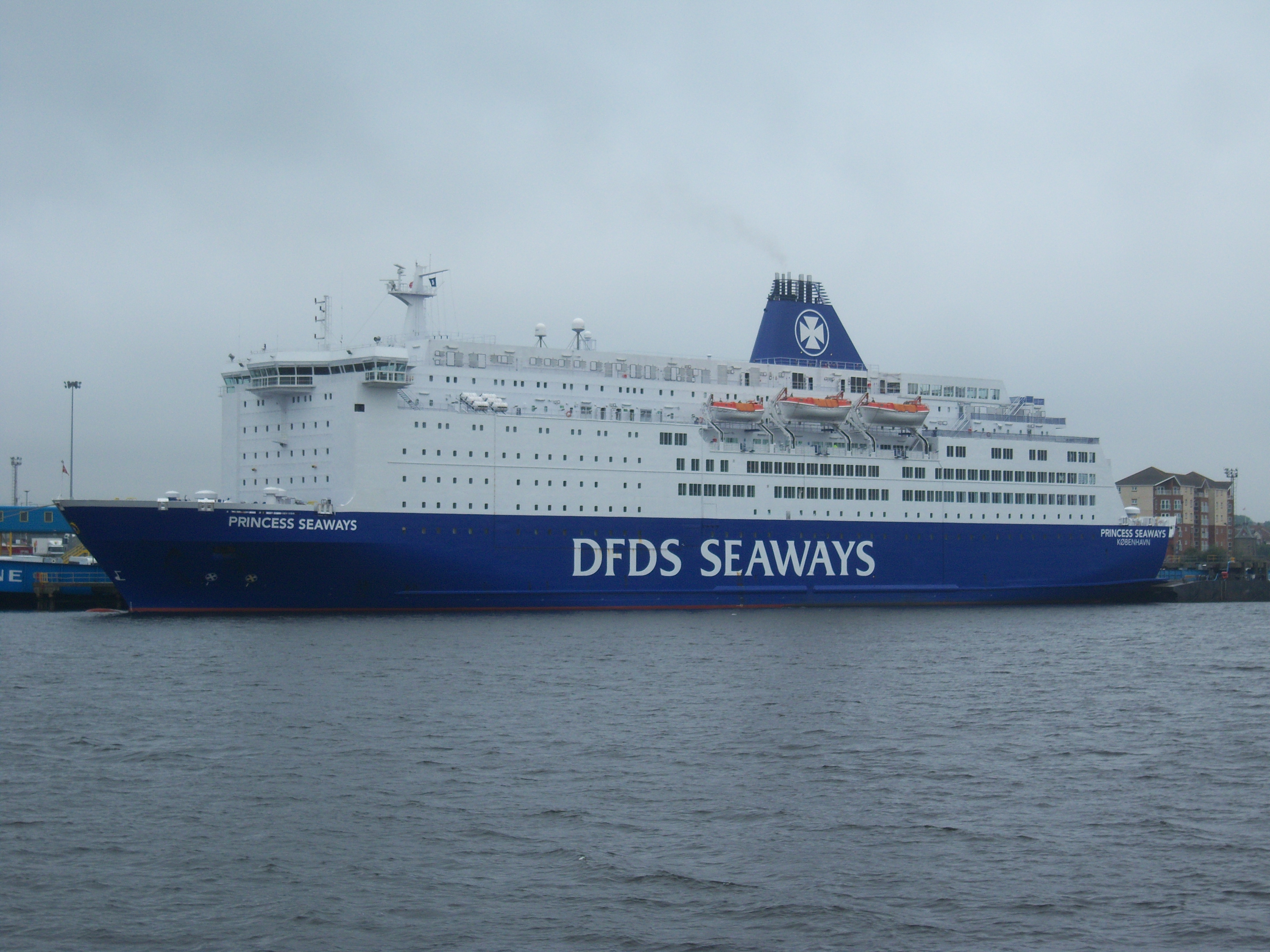 Docked on the north bank of the River Tyne, England